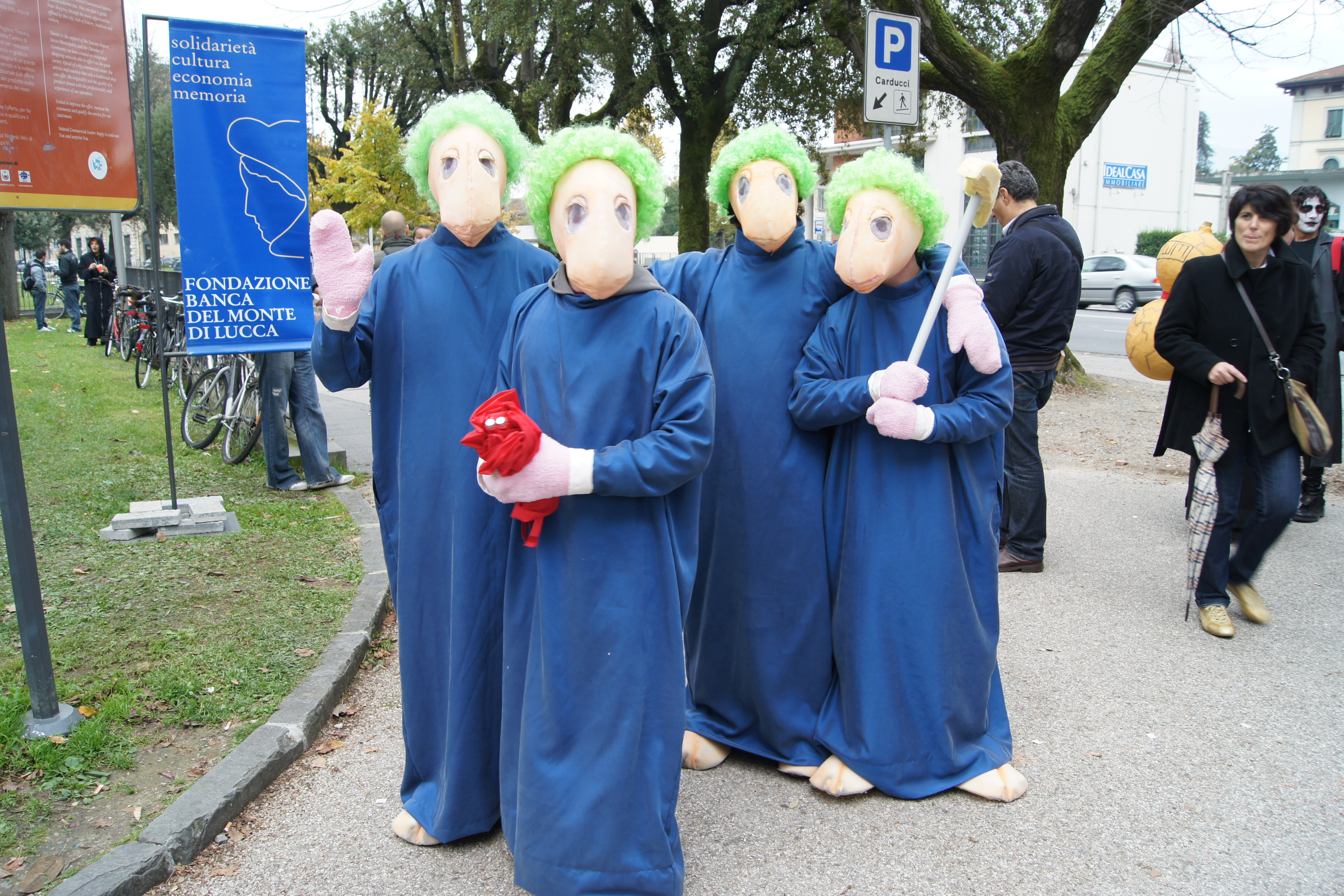 Lemmings Cosplay